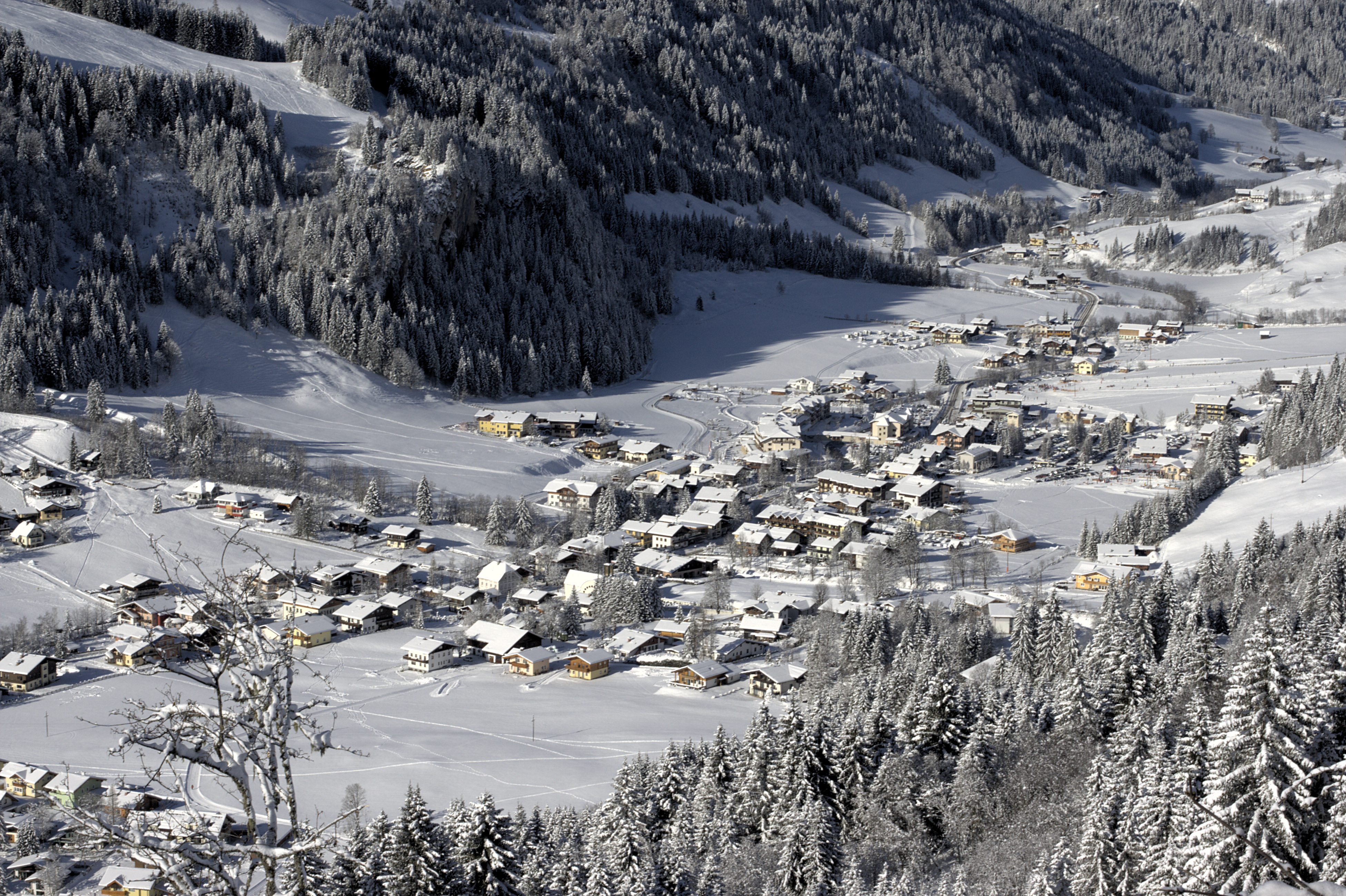 Austria, Salzburg, Kleinarl, Winterwonderland